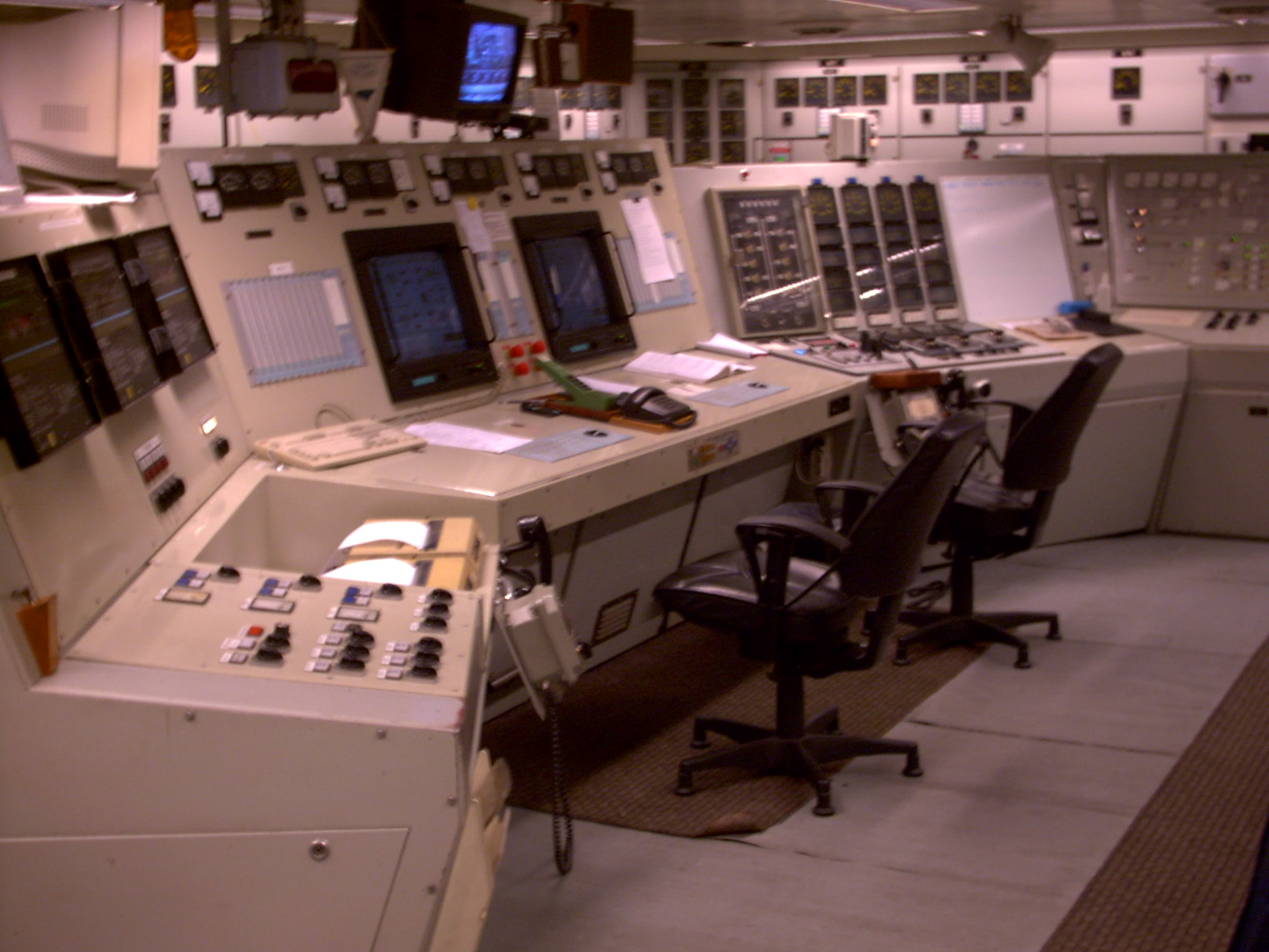 The engine control room om the icebreaker Ymer